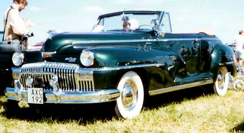 De Soto Series S11C Custom Club Coupé Convertible 1946